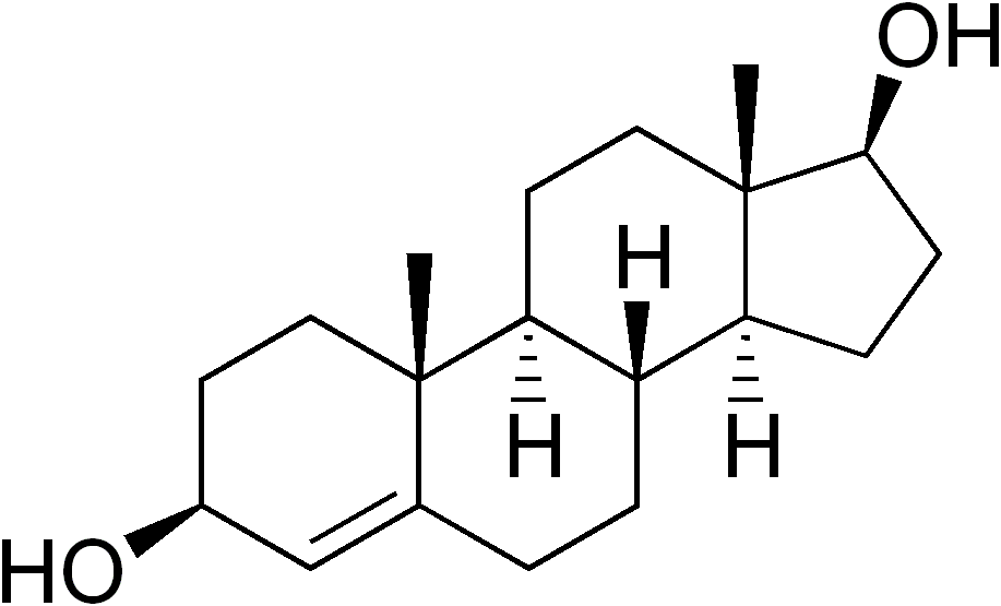 chemical structure of 4-androstenediol